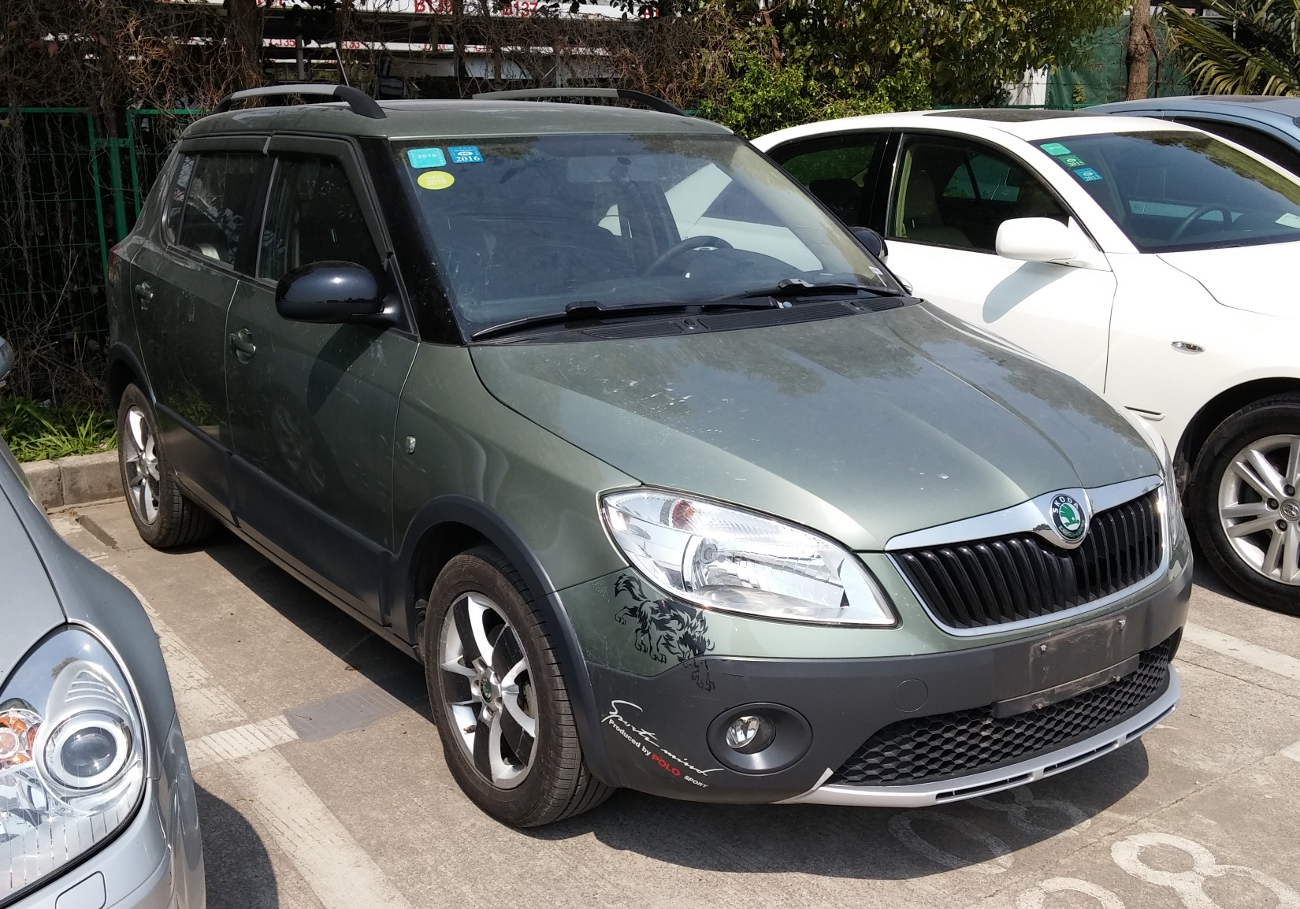 Škoda Fabia II Scout photographed in Shanghai, China.